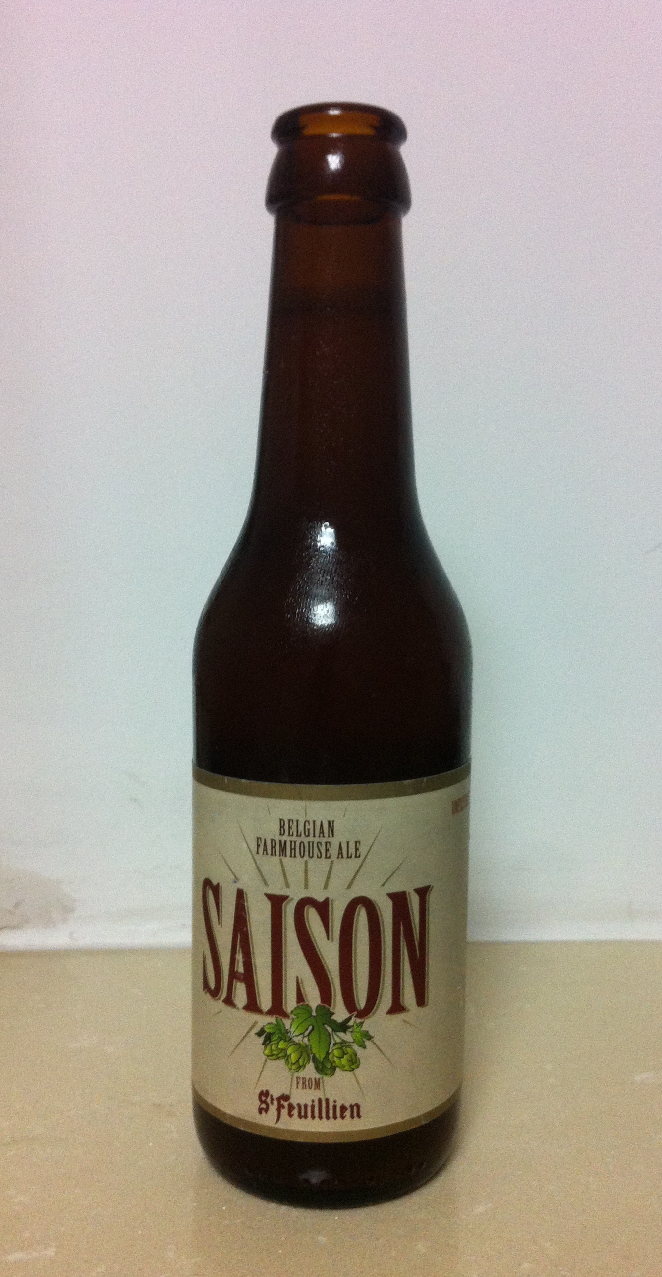 St Feuillien Saison Bottle